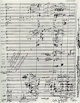 Description: Page from Giacomo Puccini's autograph score for La Fanciulla del West Artist: Giacomo Puccini (1858-1924) Provenance: Unknown Source: Circolo Filatelico G. Puccini